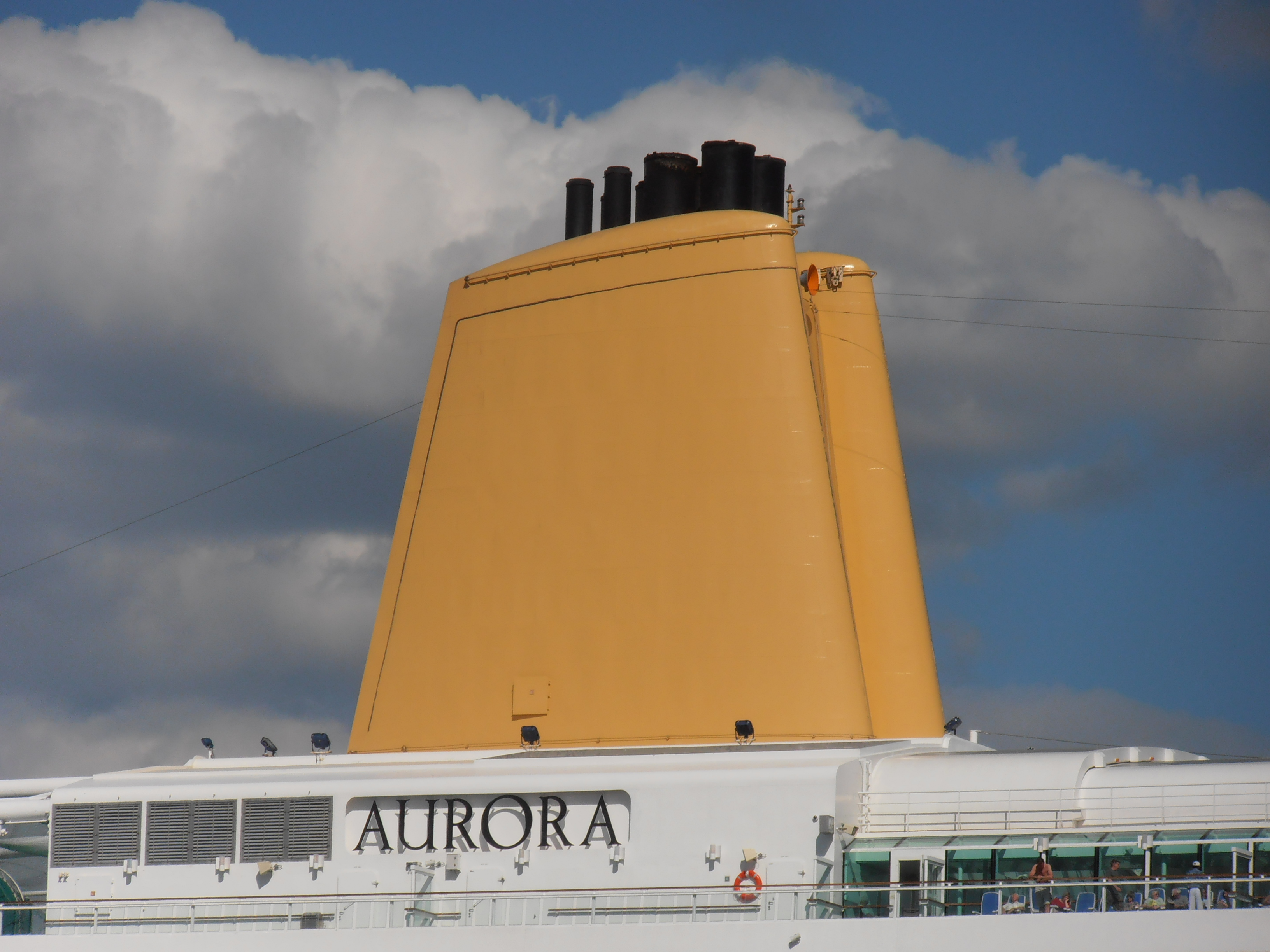 Aurora' Funnel Tallinn 9 May 2012